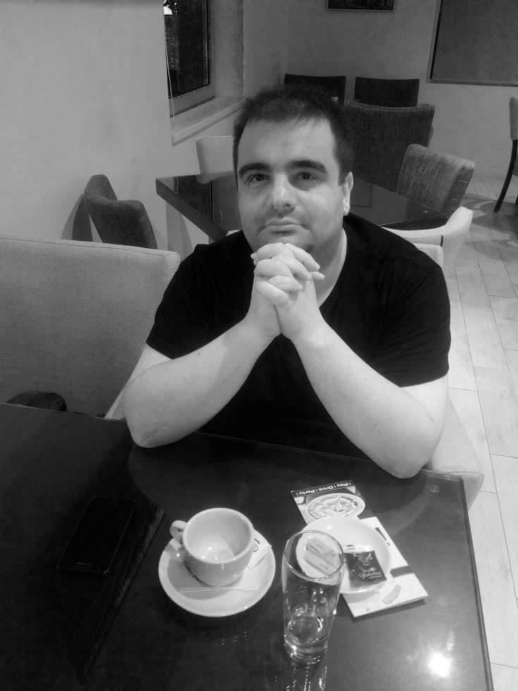 The picture of Dušan Maljković